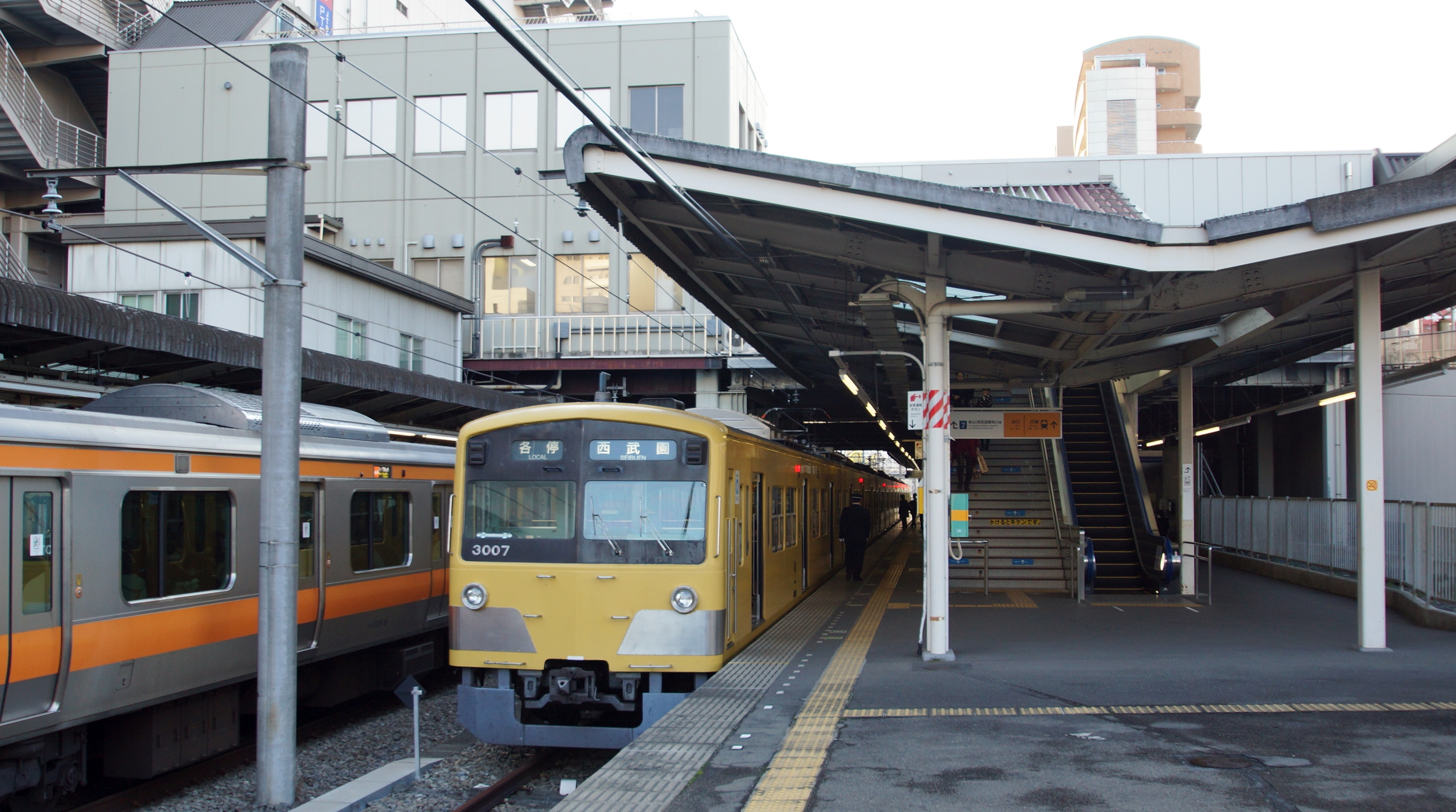 A Seibu 3000 series EMU at Kokubunji Station